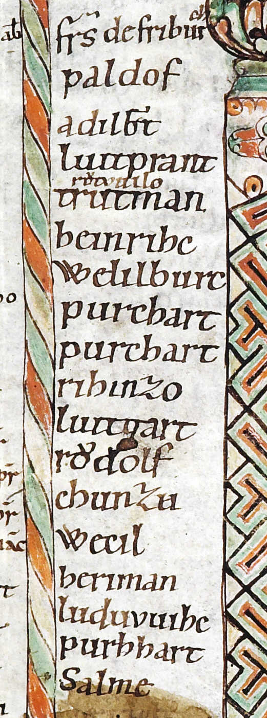 Verbrüderungsbuch from the monastery of St. Gallen, Switzerland.